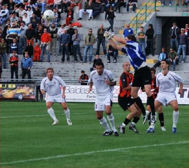 lucchese pontedera 3-1